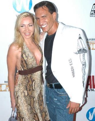 Marco Banderas with his wife Lisa Lee at Digital Playground party for movie Island Fever 4, September 17 2006